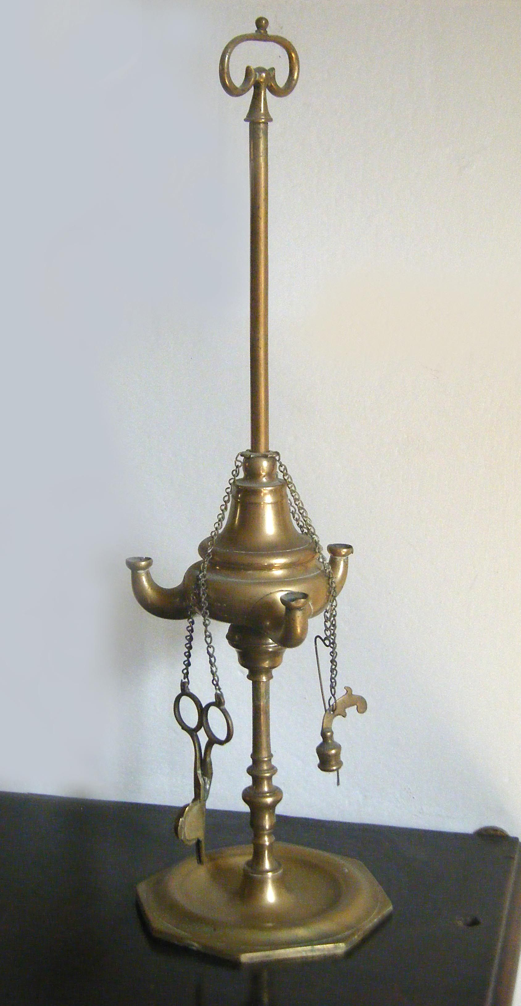 Oil lamp, XVII century